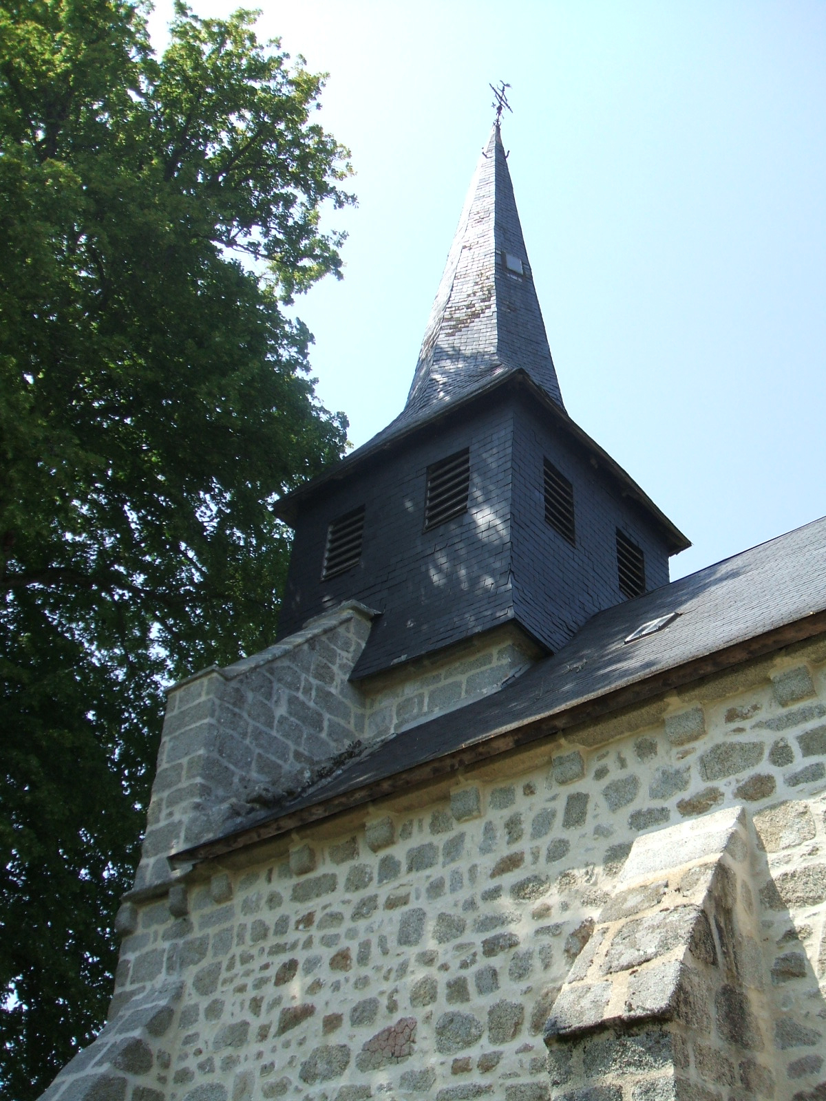 Flayat (département of Creuse, Limousin région, France). Church of Saint Martin. Belltower.